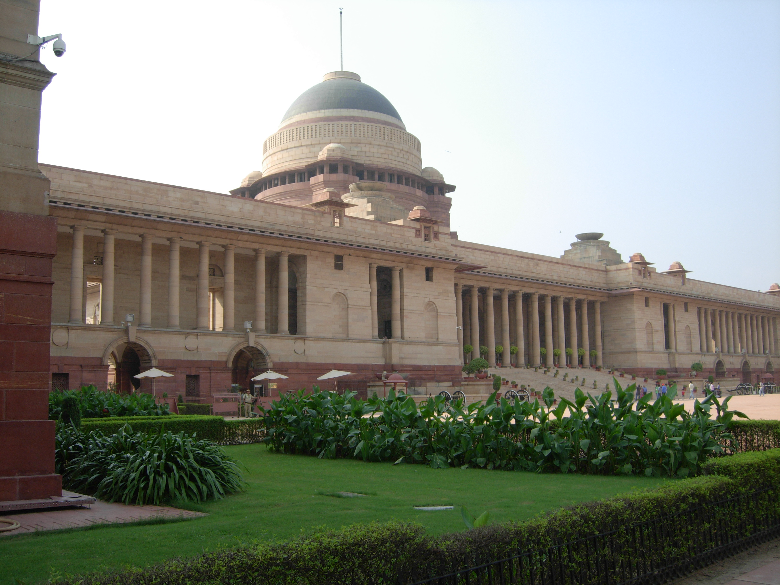 Rashtrapati Bhavan the official president residence of India